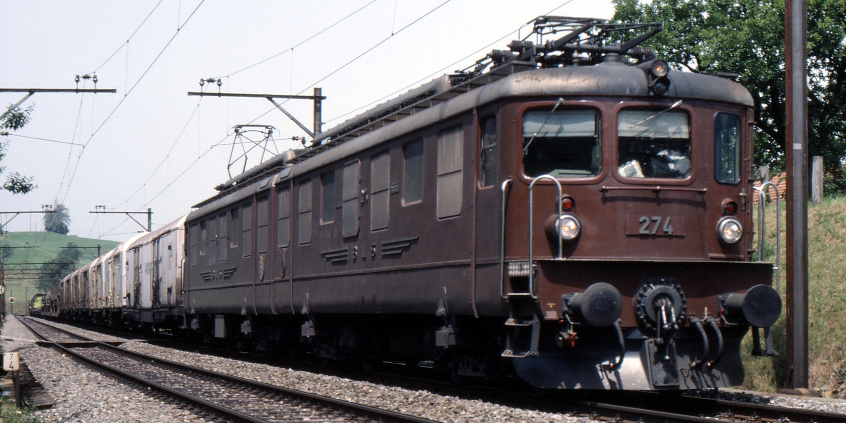 Swiss BLS Ae 485 (Ae 8/8) Built 1962 6475 kW the Machine is 30m long Nickname "Muni"